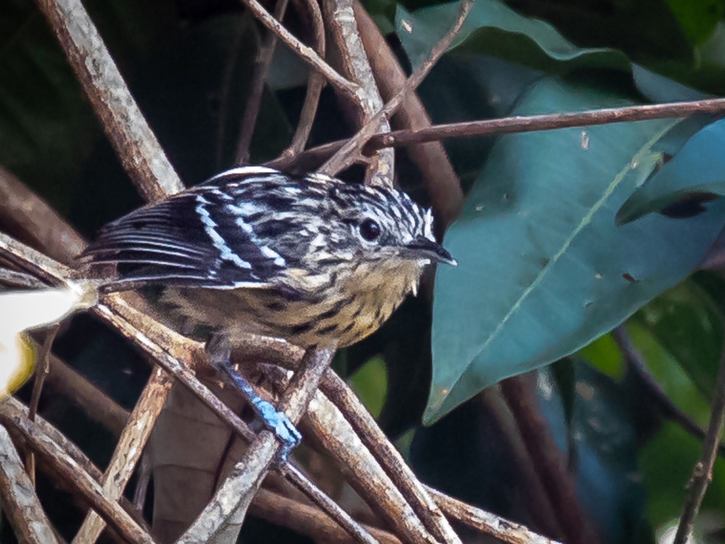 Klages's antwren (female); Anavilhanas islands, Novo Airão, Amazonas, Brazil